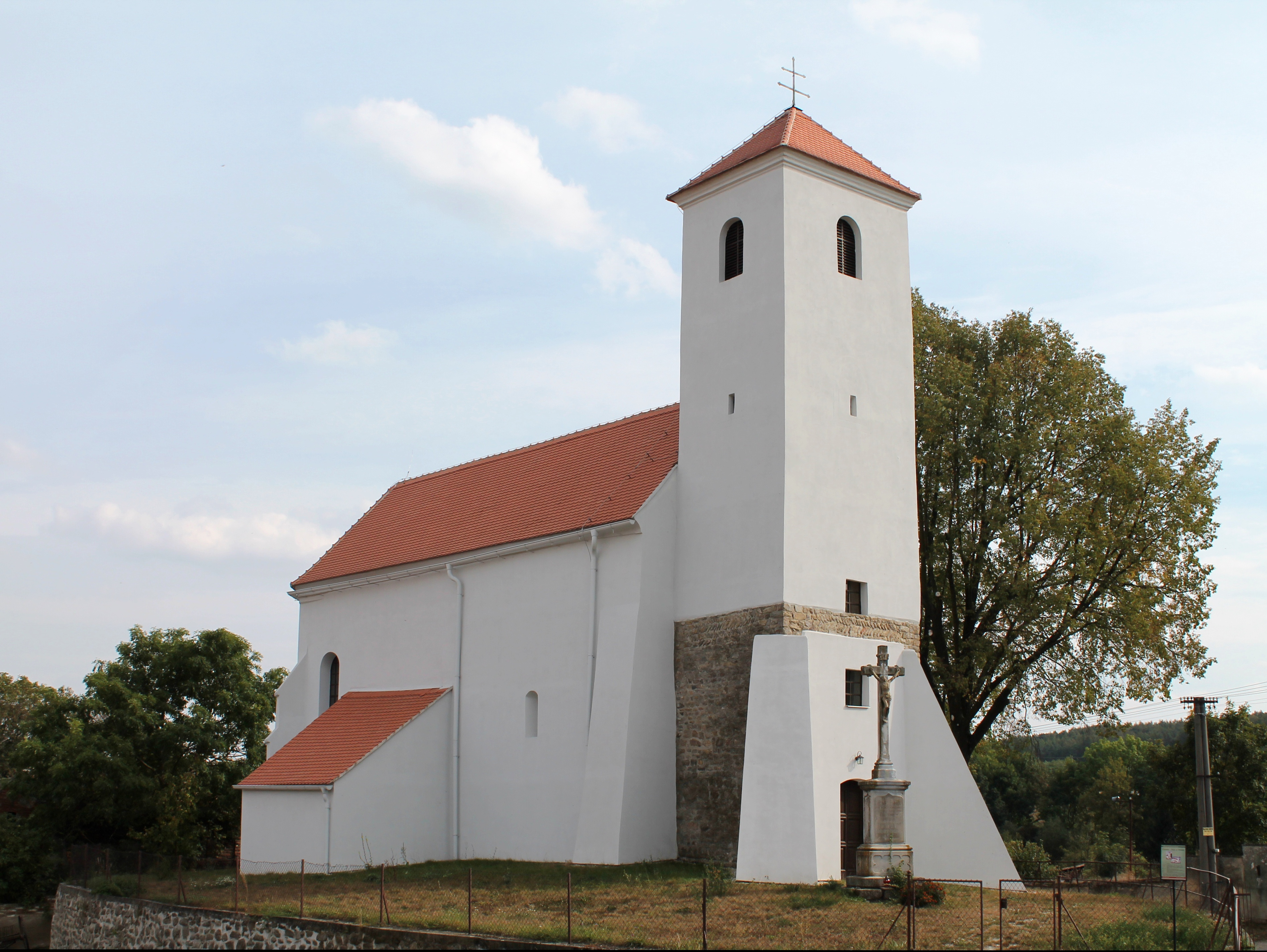 Church of Saint James the Greater, Černín, Znojmo District, Czech Republic This photograph was taken during a group photography field trip by Brno Wikipedians: 2016-09-28.